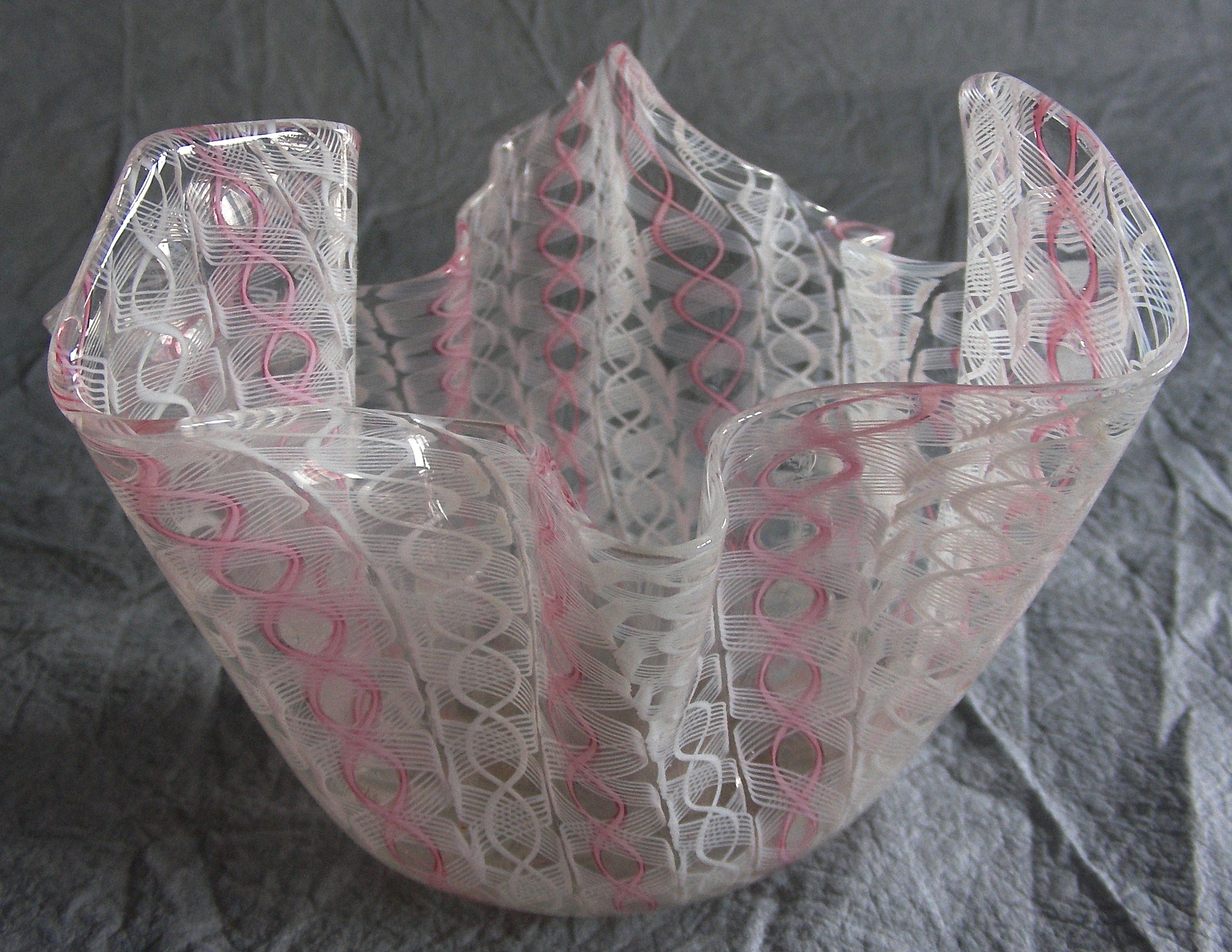 Fazzoletto (handkerchief) Vase, design by Fulvio Bianconi, produced by Venini, 1949